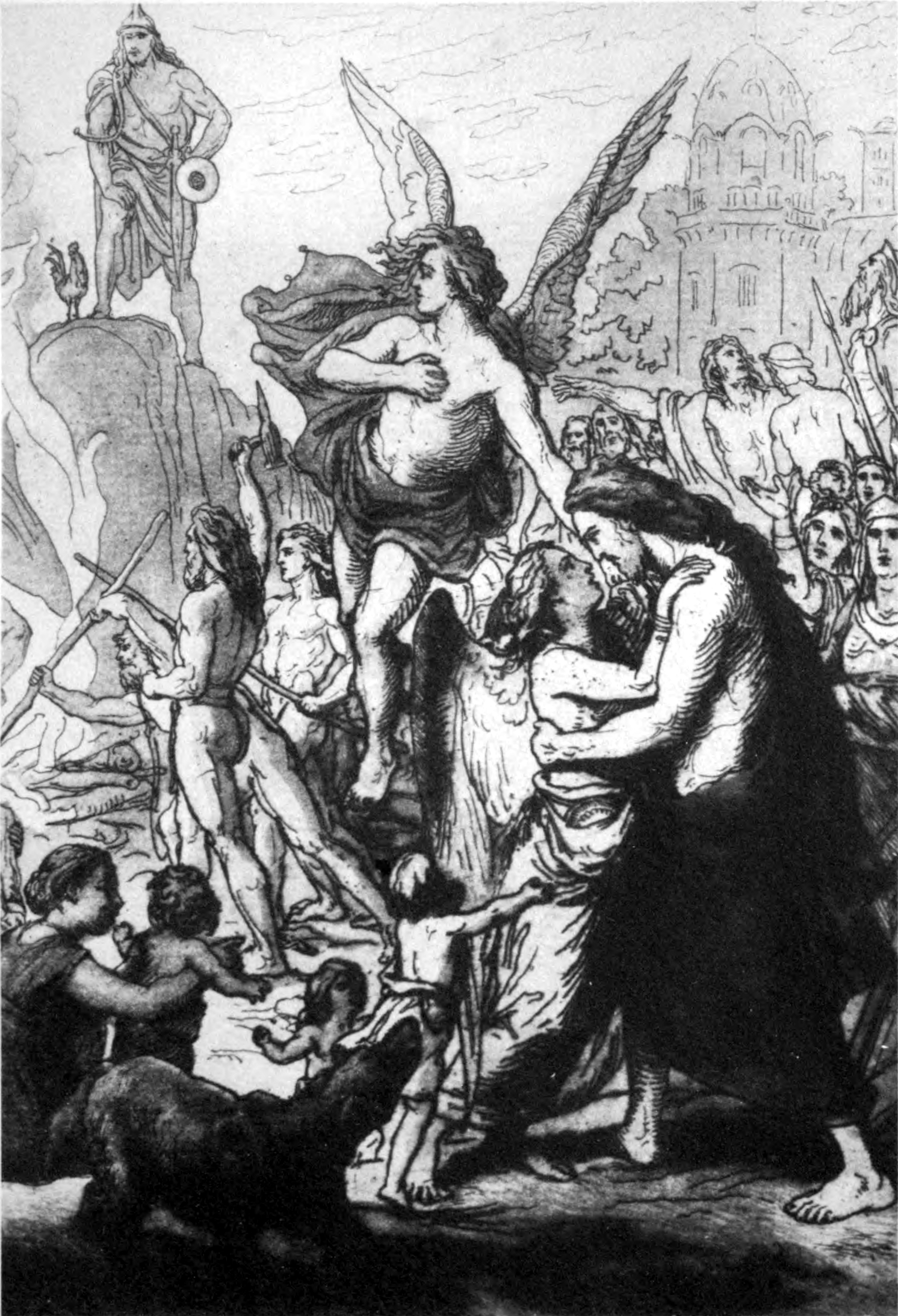 Idun Brought Back to Asgard